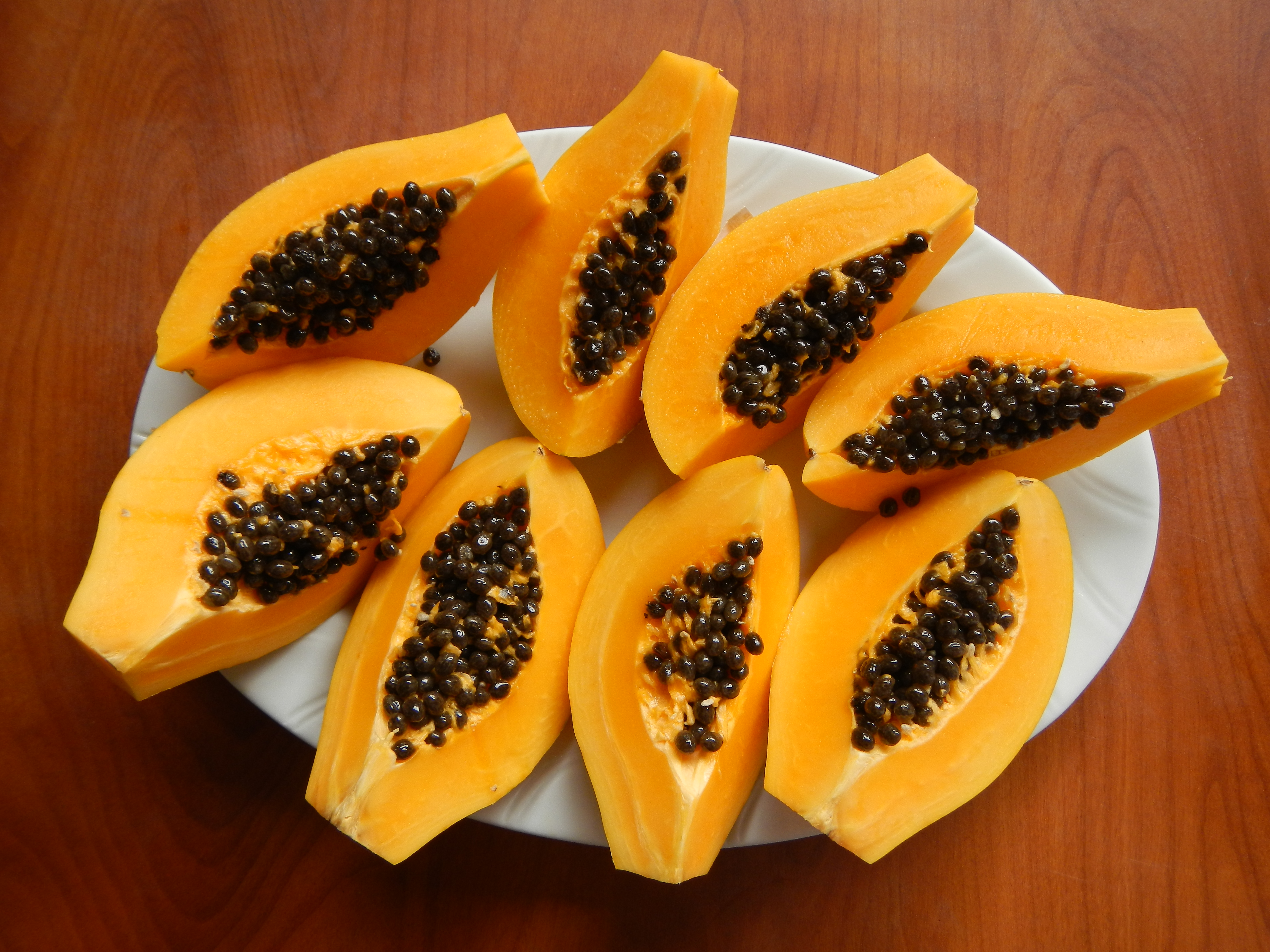 Papaya